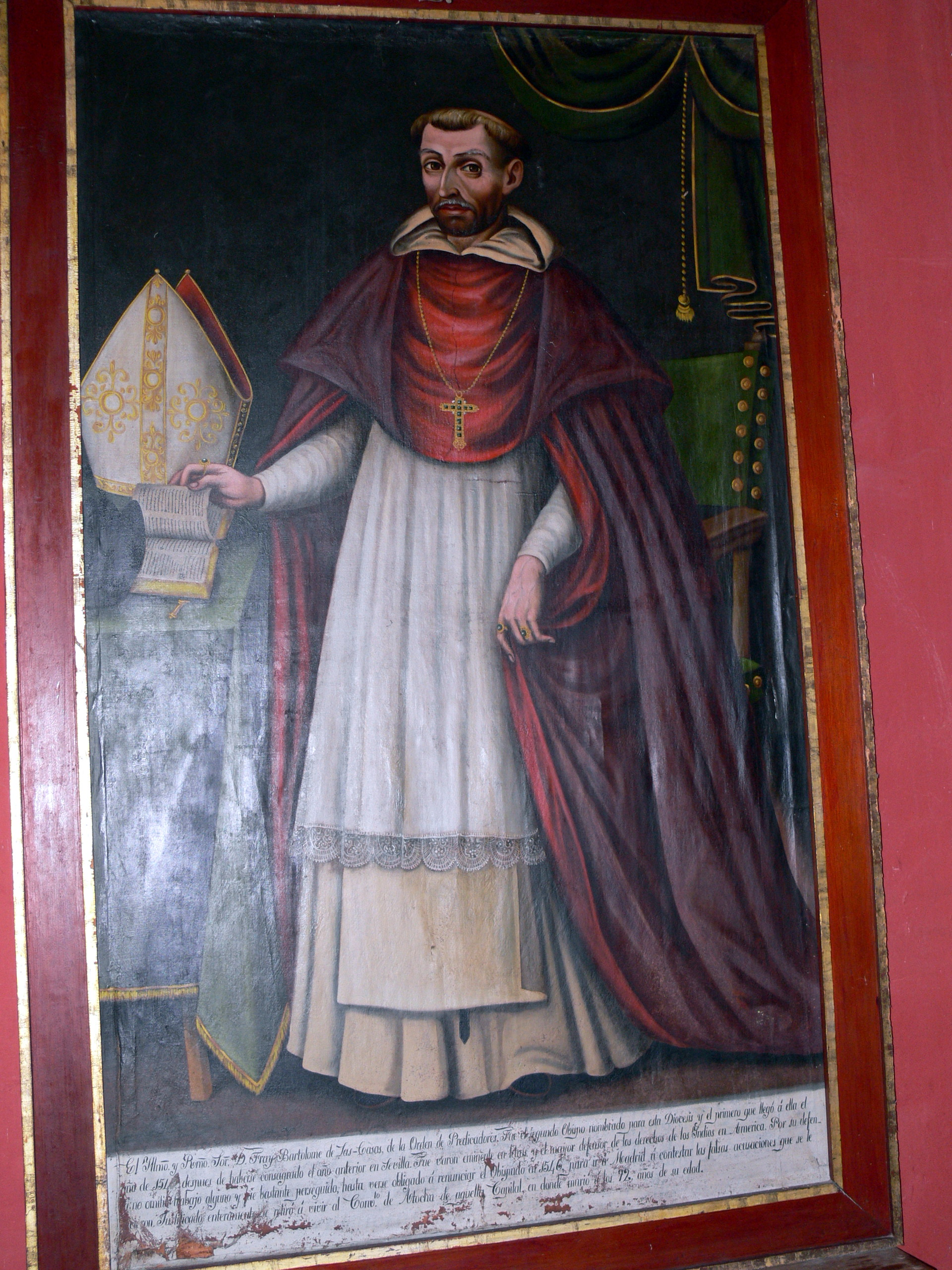 San Cristobal de las Casas. Painting of Cristobal de las Casas, who was bishop of San Cristobal in the 16th century.